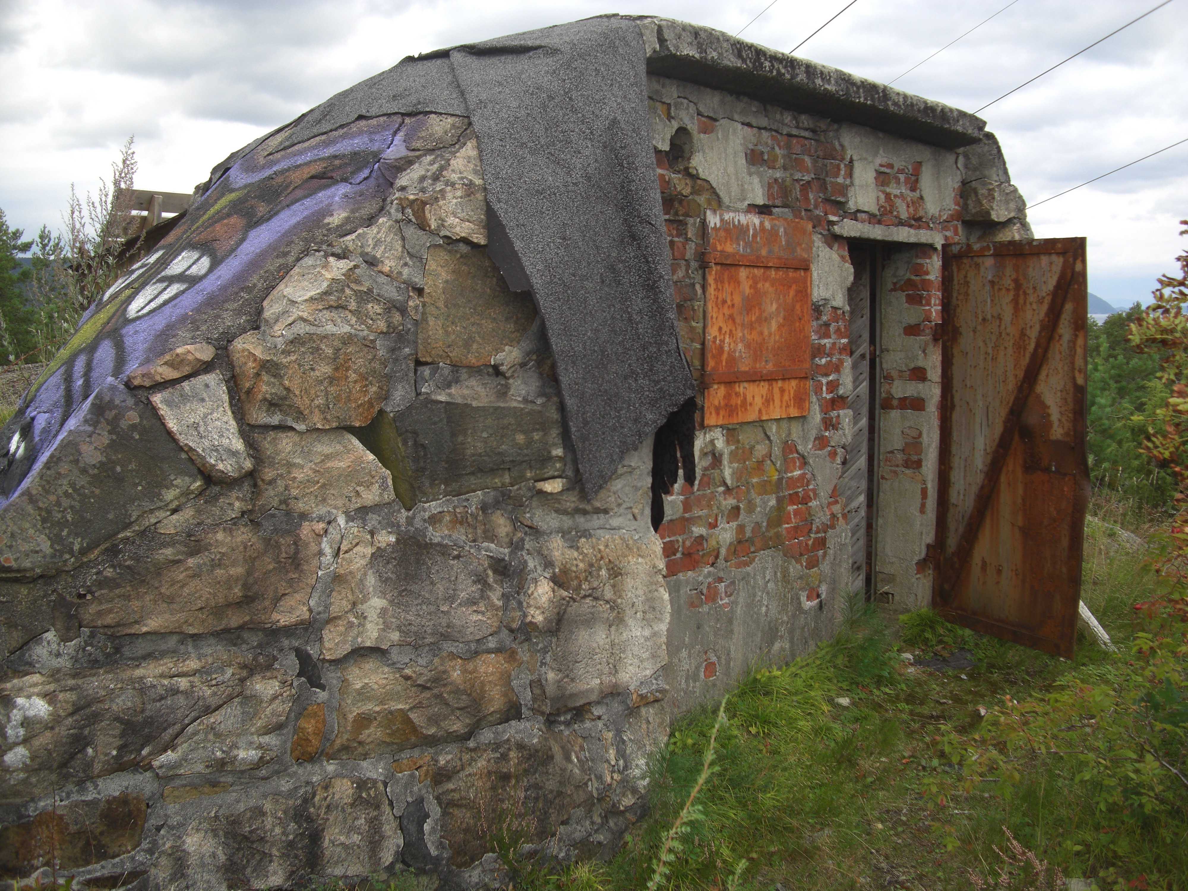 Stjernås observation post